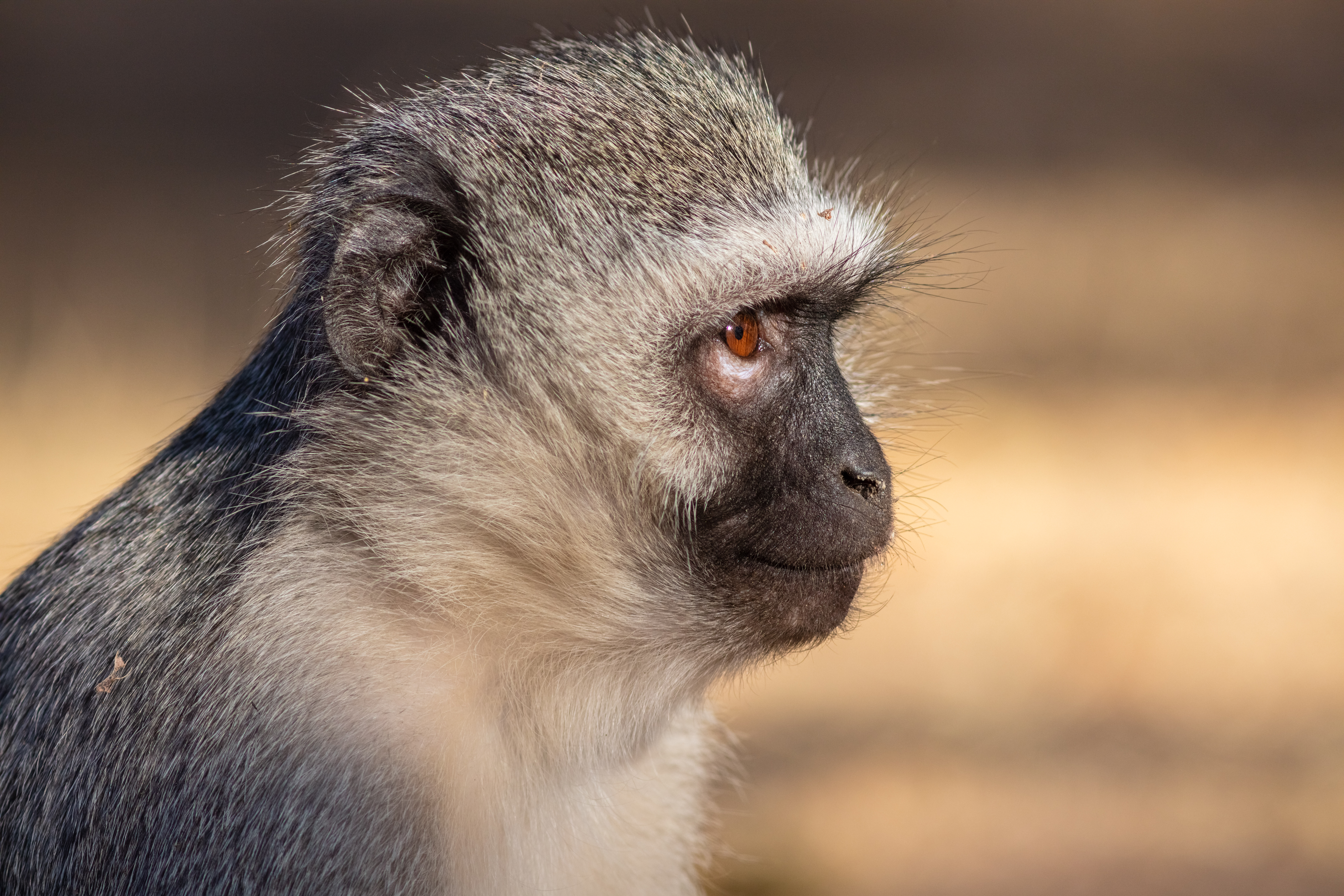 Vervet monkey (Chlorocebus pygerythrus), Kruger National Park, South Africa